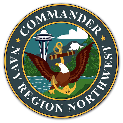 Insignia/logo/emblem of Commander, Navy Region Northwest